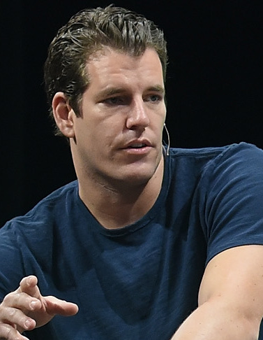 NEW YORK, NY - MAY 06: (L-R) Tyler Winklevoss, Cameron Winklevoss and John Biggs appear onstage during TechCrunch Disrupt NY 2015 - Day 3 at The Manhattan Center on May 6, 2015 in New York City. (Photo by Noam Galai/Getty Images for TechCrunch)